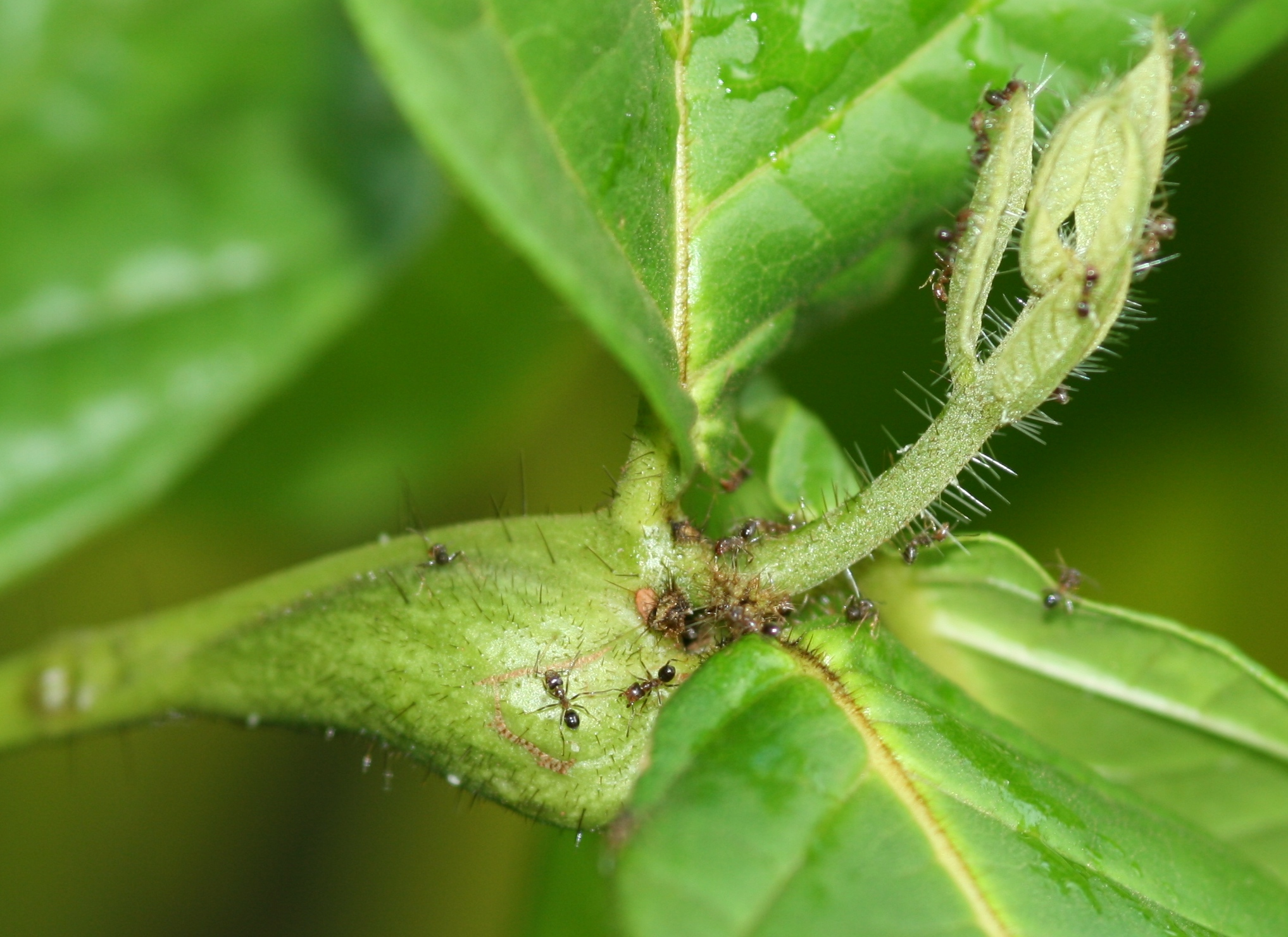 Domatium of Cordia nodosa, Rio Caura, Venezuela